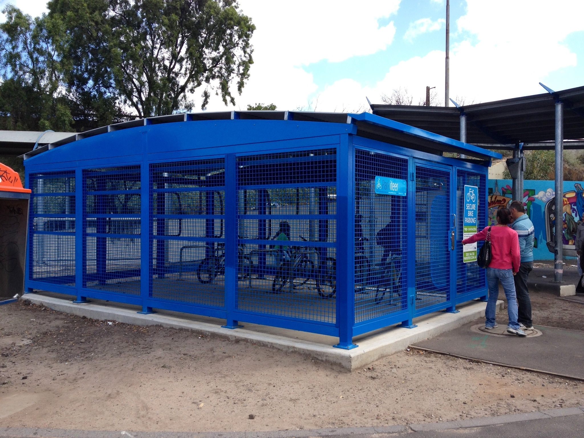 Parkiteer cage at Sunshine railway station in Melbourne, Australia.